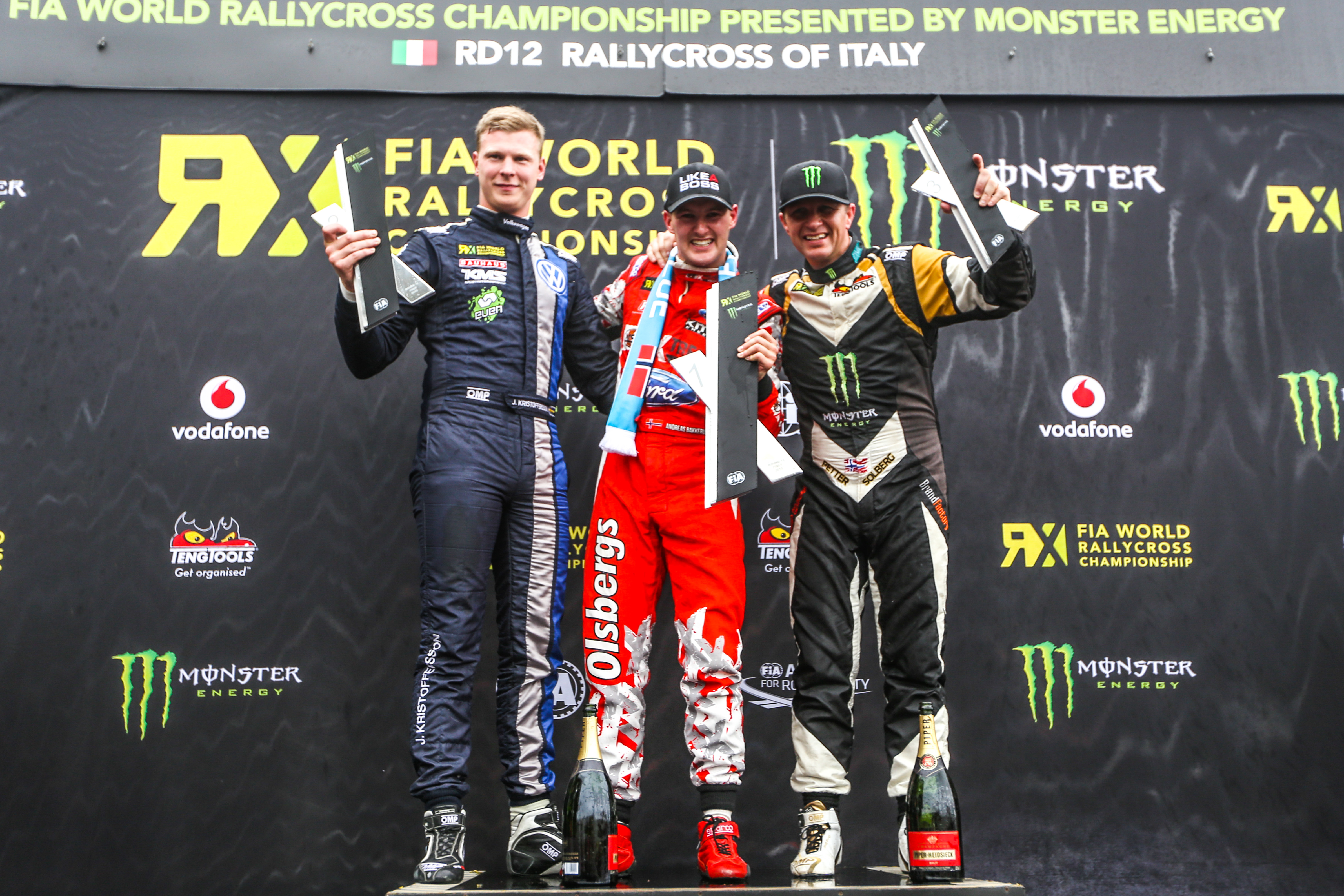 The podium after Round 12 of the 2015 FIA World Rallycross Championship at Franciacorta International Circuit, Italy. From left to right: Johan Kristoffersson (2nd), Andreas Bakkerud (1st) and Petter Solberg (3rd).